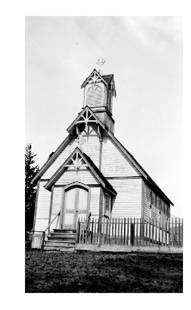 Photo taken 193? Photograper Unknown BC Archives #B-04352 [1]